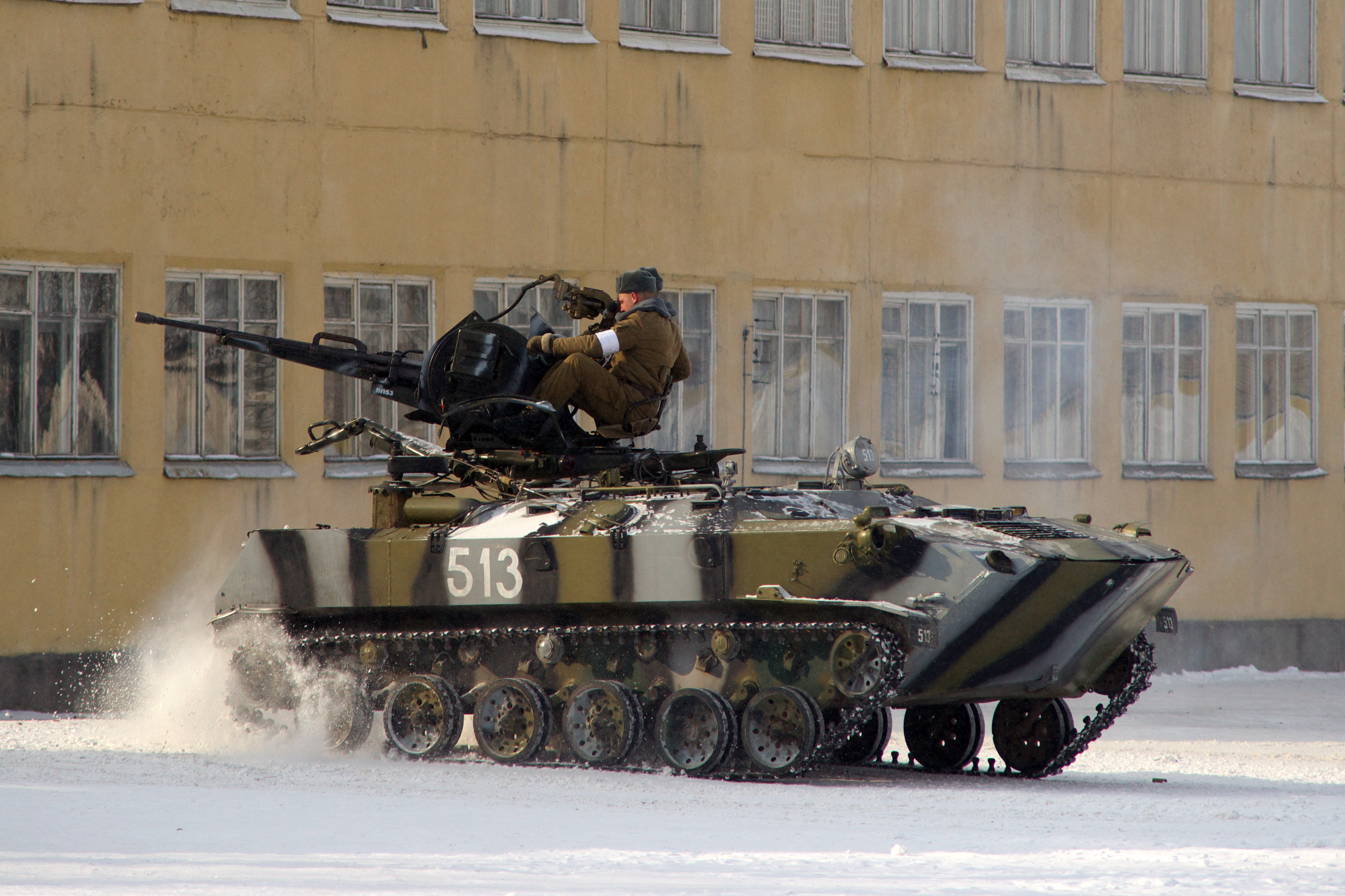 BTR-ZD with installed ZU-23-2 of 103rd Mobile Brigade, Belarus